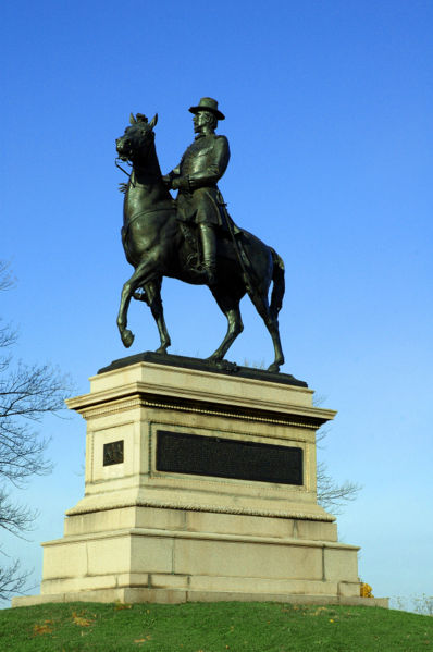 Statue af Winfield Scott Hancock i Gettysburg Battlefield